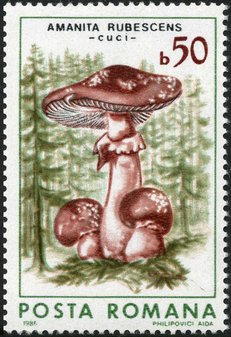 Amanita rubescens Pers. on Romanian stamp (1986, 50 bani, Michel №4288)